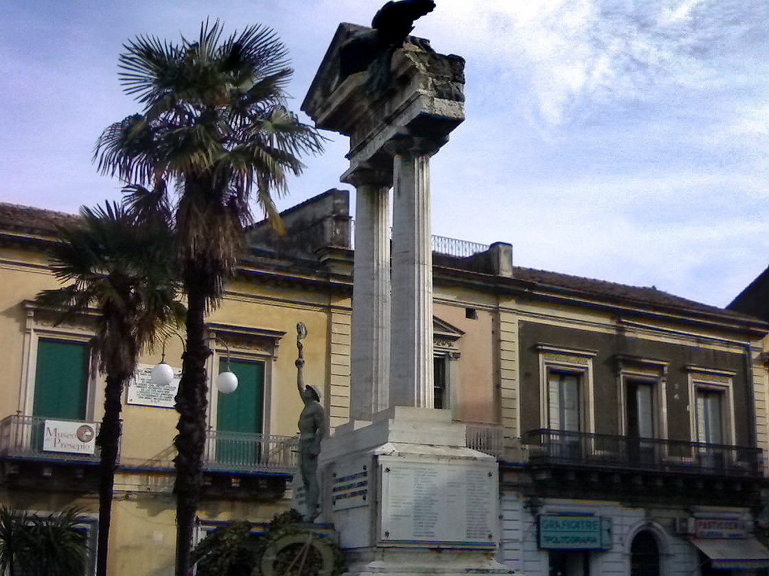 Giarre, Province of Catania, Sicily, Monumento ai Caduti